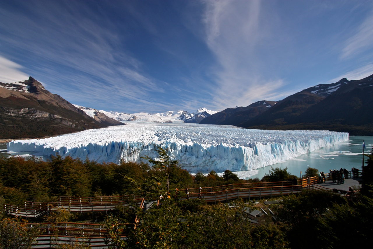 Perito Moreno Glacier, in Los Glaciares National Park, southern Argentina